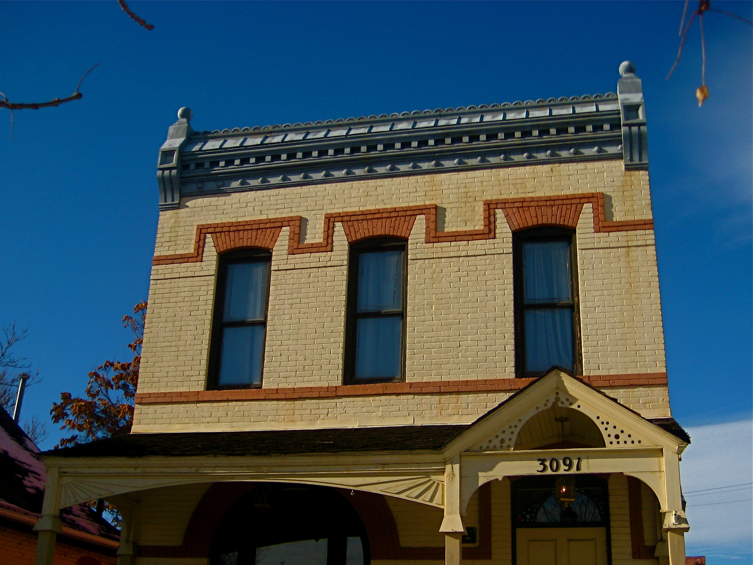 JUSTINA FORD HOUSE- 3091 California Street National Register 11/23/1984, 5DV.1493 Originally constructed at 2335 Arapahoe St. in 1890, the two-story flat roofed brick house sits on a stone foundation. Simple in massing and detailing, its most distinctive features are the dentils, end brackets, and finials of its pressed metal cornice. The house was the residence and office of Dr. Justina Ford from 1912 until her death in 1952. Ford graduated from Chicago’s Hering Medical College in 1899 and practiced briefly in Alabama before coming to Denver in 1902. She was Colorado’s first Black female doctor and until her death remained the only such physician in Denver. Her patients came from a variety of ethnic backgrounds, and she served as a staff member at Denver General Hospital. In 1984, the house was moved approximately thirteen blocks to its present location in order to save it from demolition. It is now the home of the Black American West Museum.